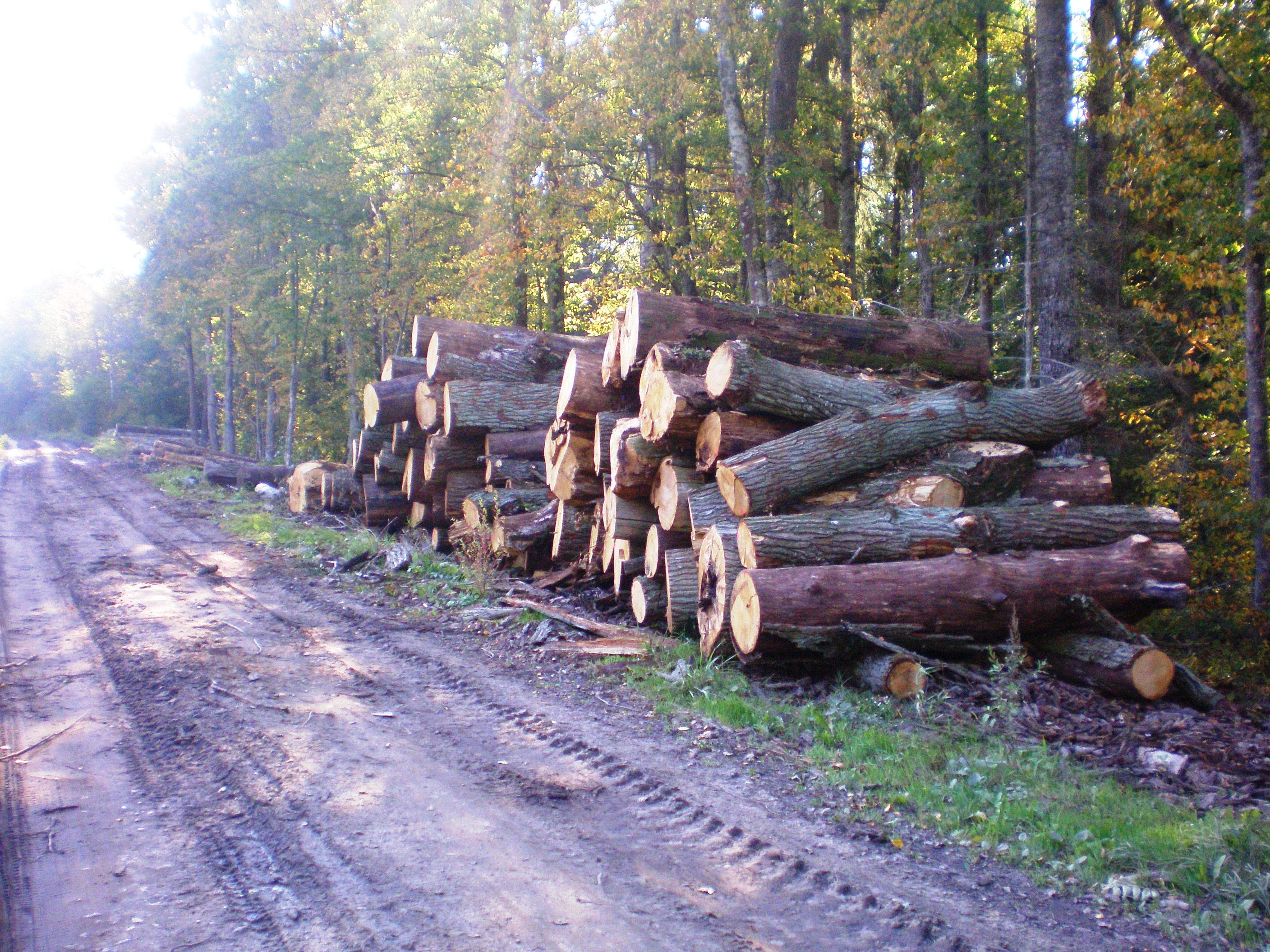 Sviliai forest, Lithuania